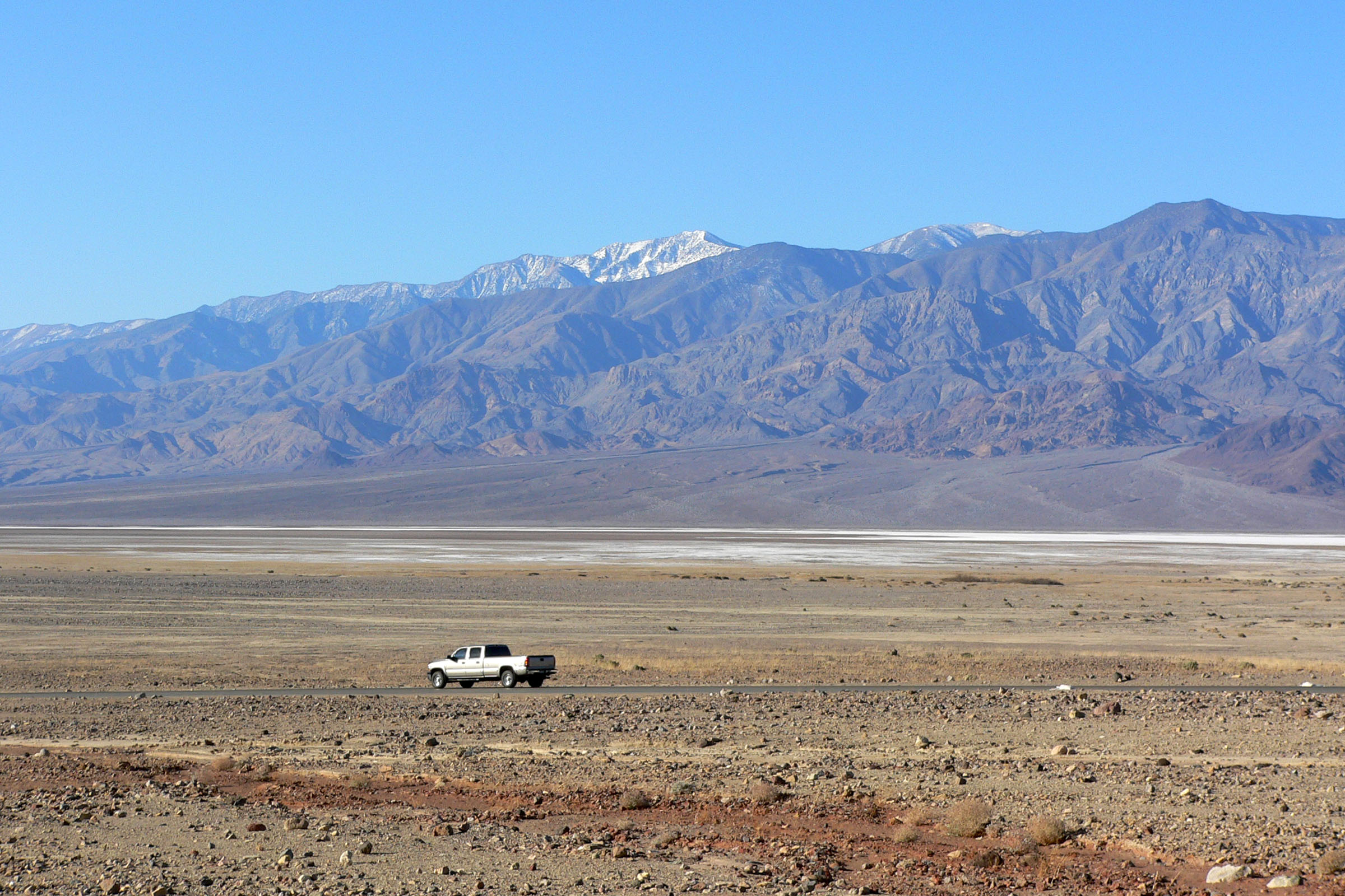 View of Death Valley floor near Furnace Creek